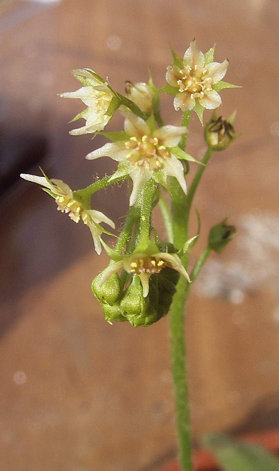 White flower of Drosera adelae